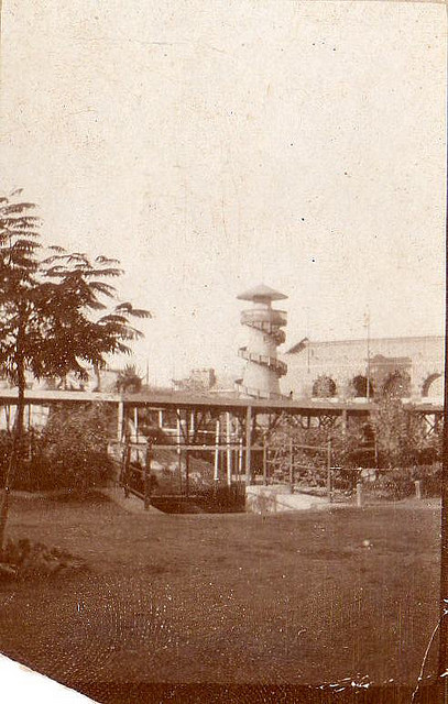 Inscription on reverse - Luna Park, Cairo 1915 [Joseph Cecil Thompson - presumed photographer]